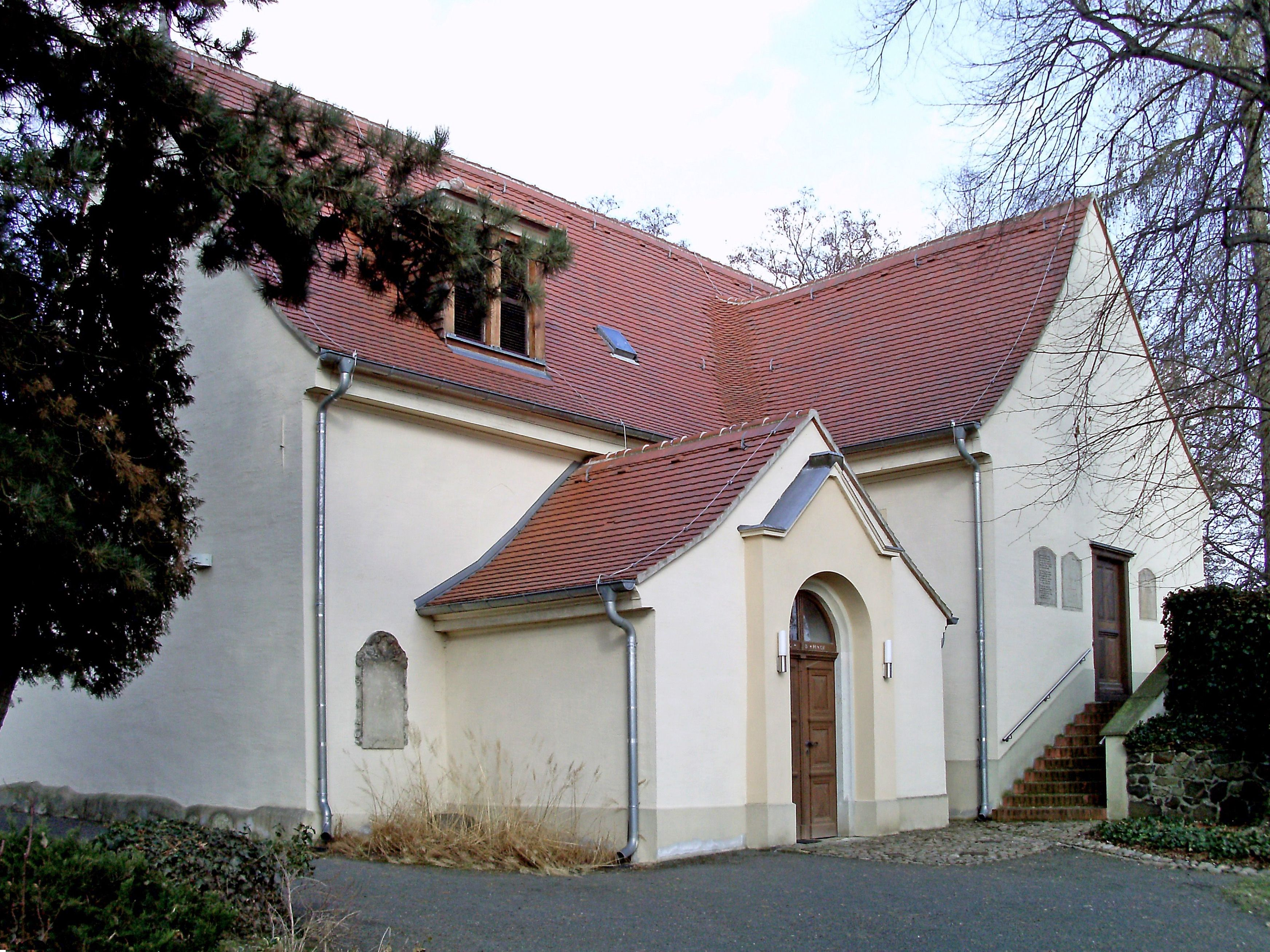 St. Catherine Church in Seegeritz (Taucha, Nordsachsen district, Saxony)